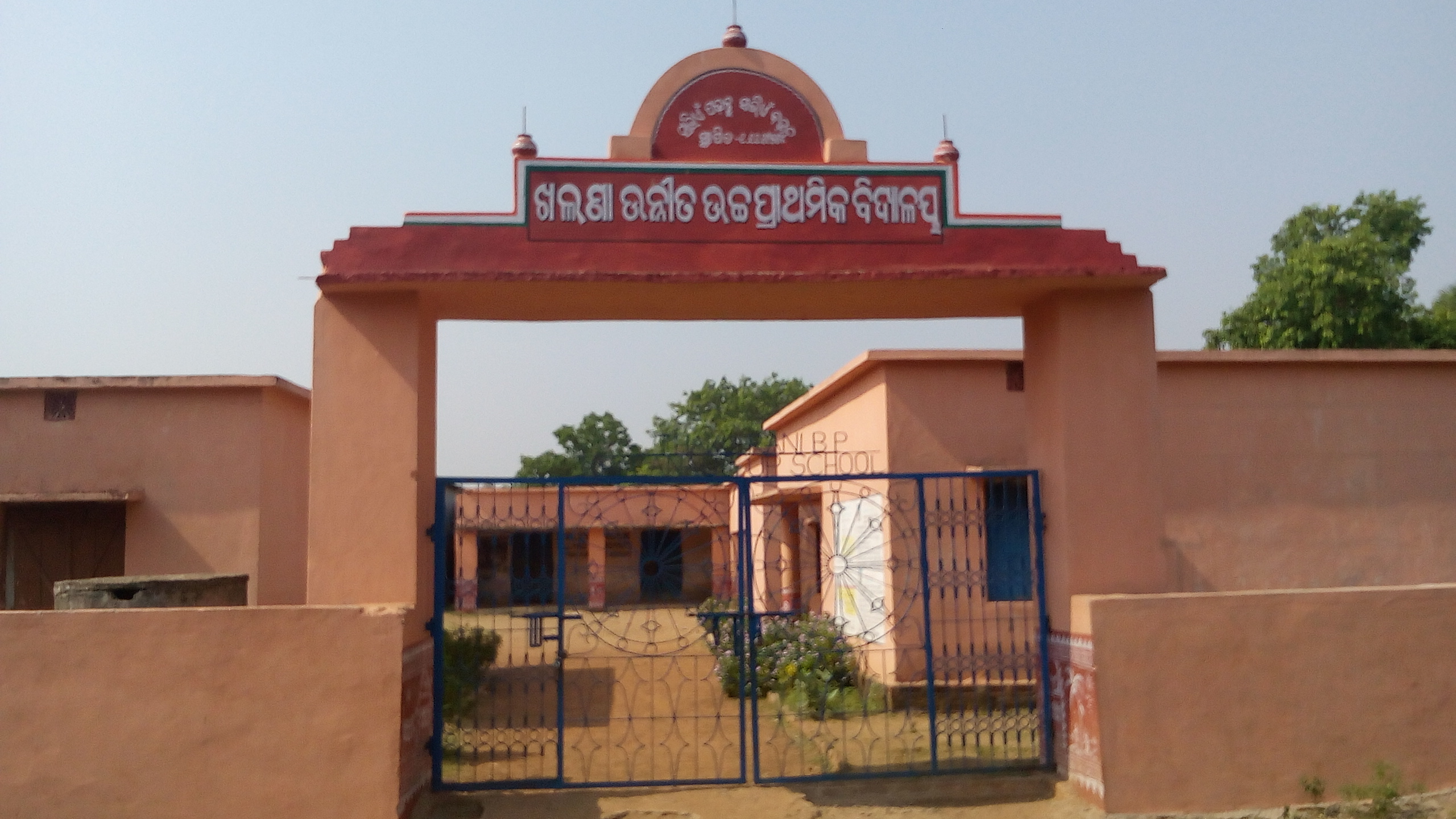 Front of khalana u.g.u.p school